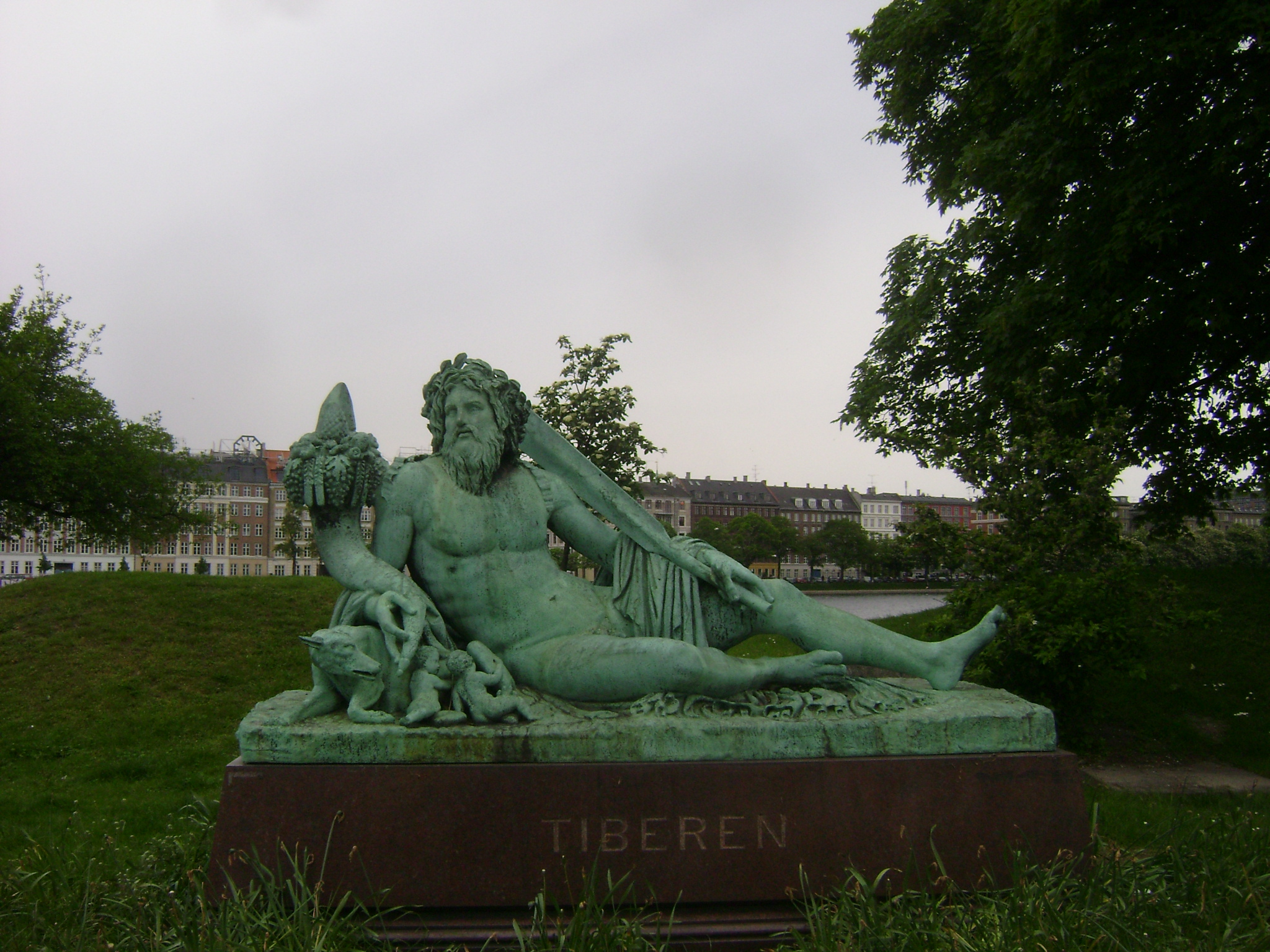 Denmark. Capital Region. Copenhagen